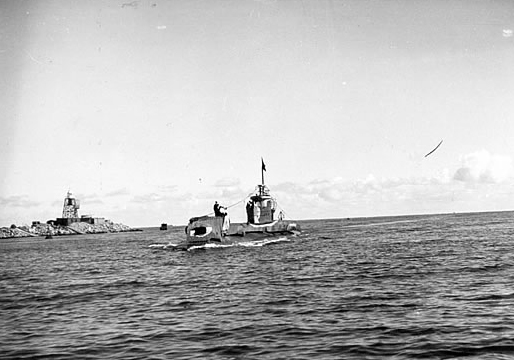 HMS Trenchant entering a harbour and flying her Jolly Roger flag, taken in 1945. Trenchant had just returned from her successul attack on the Japanese cruiser 'Ashigara'